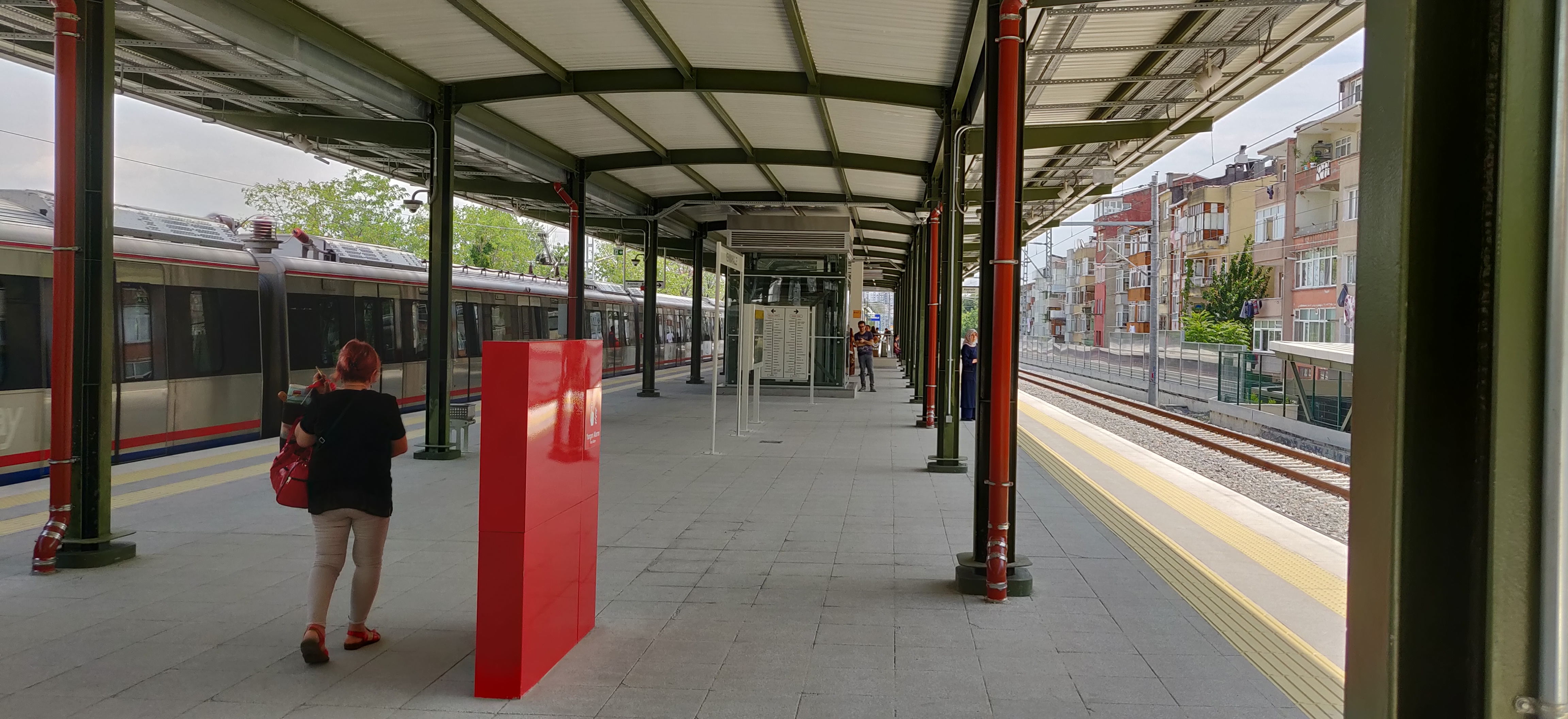 Yeni Mahalle railway station.